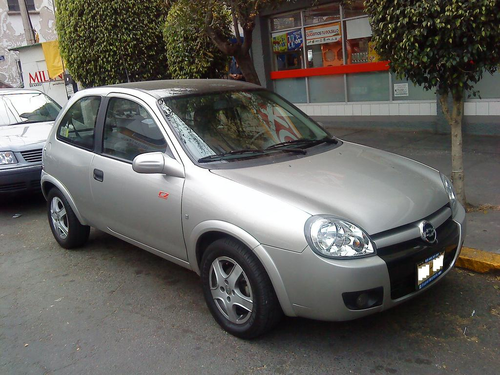 A limited edition Chevy C2 MP3